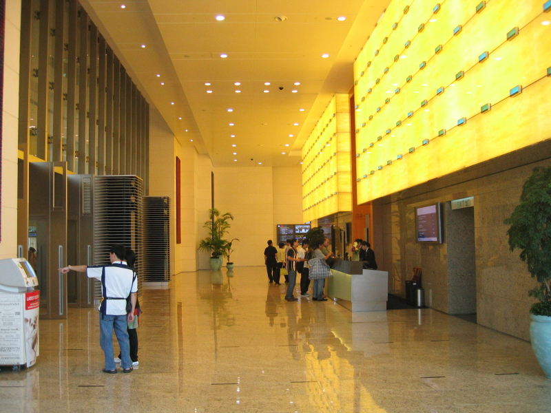 International Finance Centre Phase 2 Lift Lobby 國金二期辦公室升降機大堂